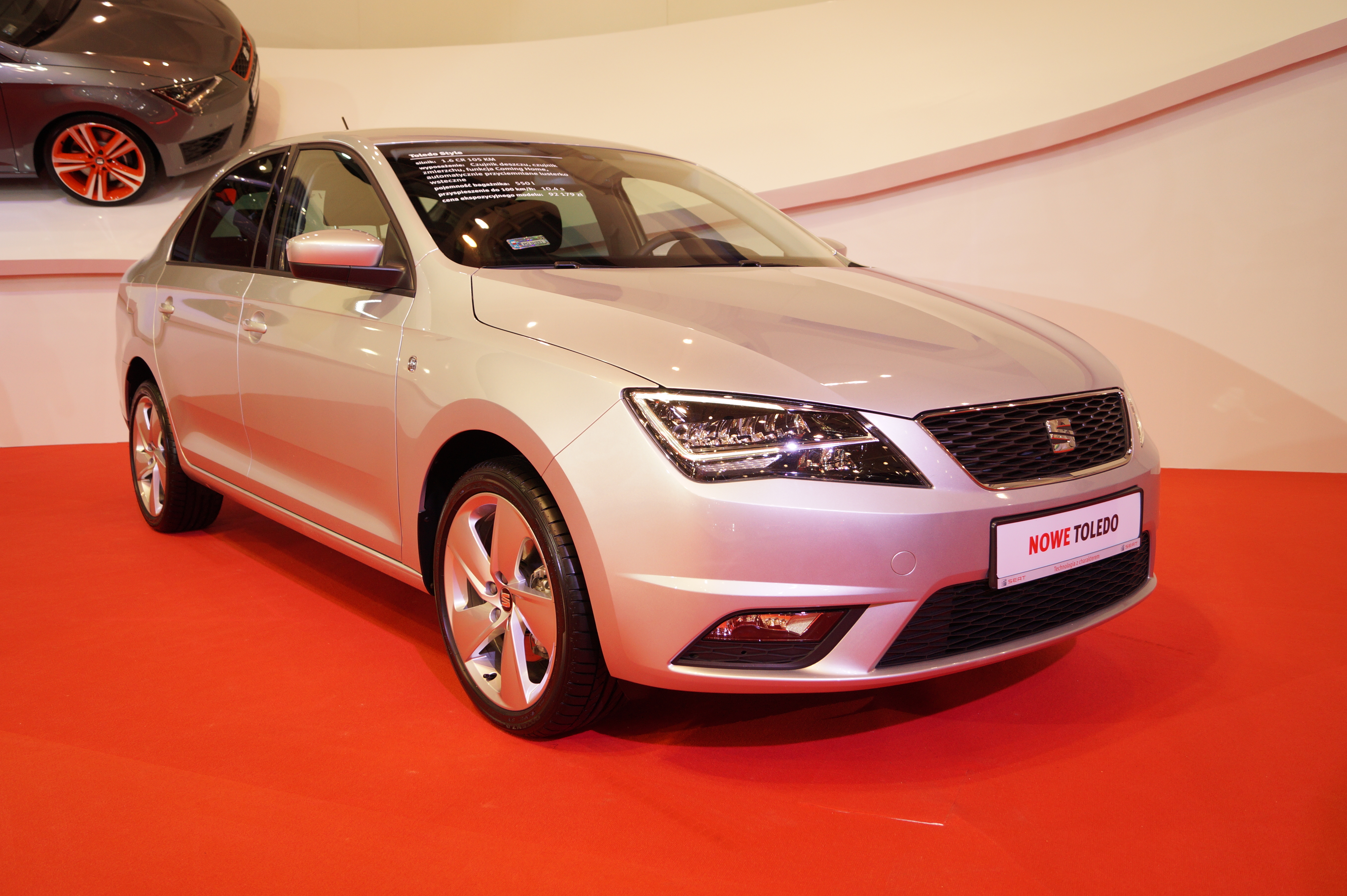 The making of this document was supported by Wikimedia Polska Association, within Wikigrant no. WG 2015-19. Przód SEATa Toledo na Motor Show Poznań 2015